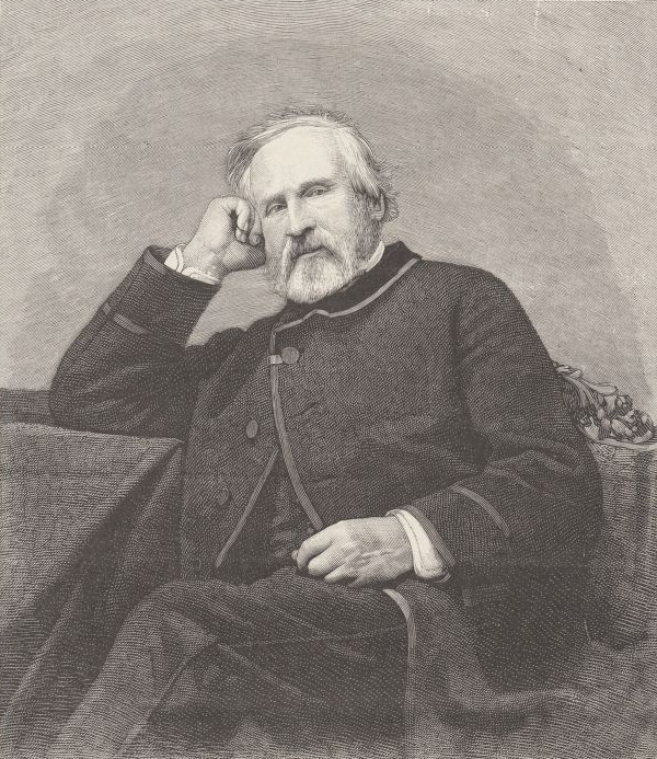 Engraved portrait of French painter Auguste Biard (after the photograph by Louis Sauvager created at Fontainebleau), published at "Le Monde Illustré", 1.07.1882.